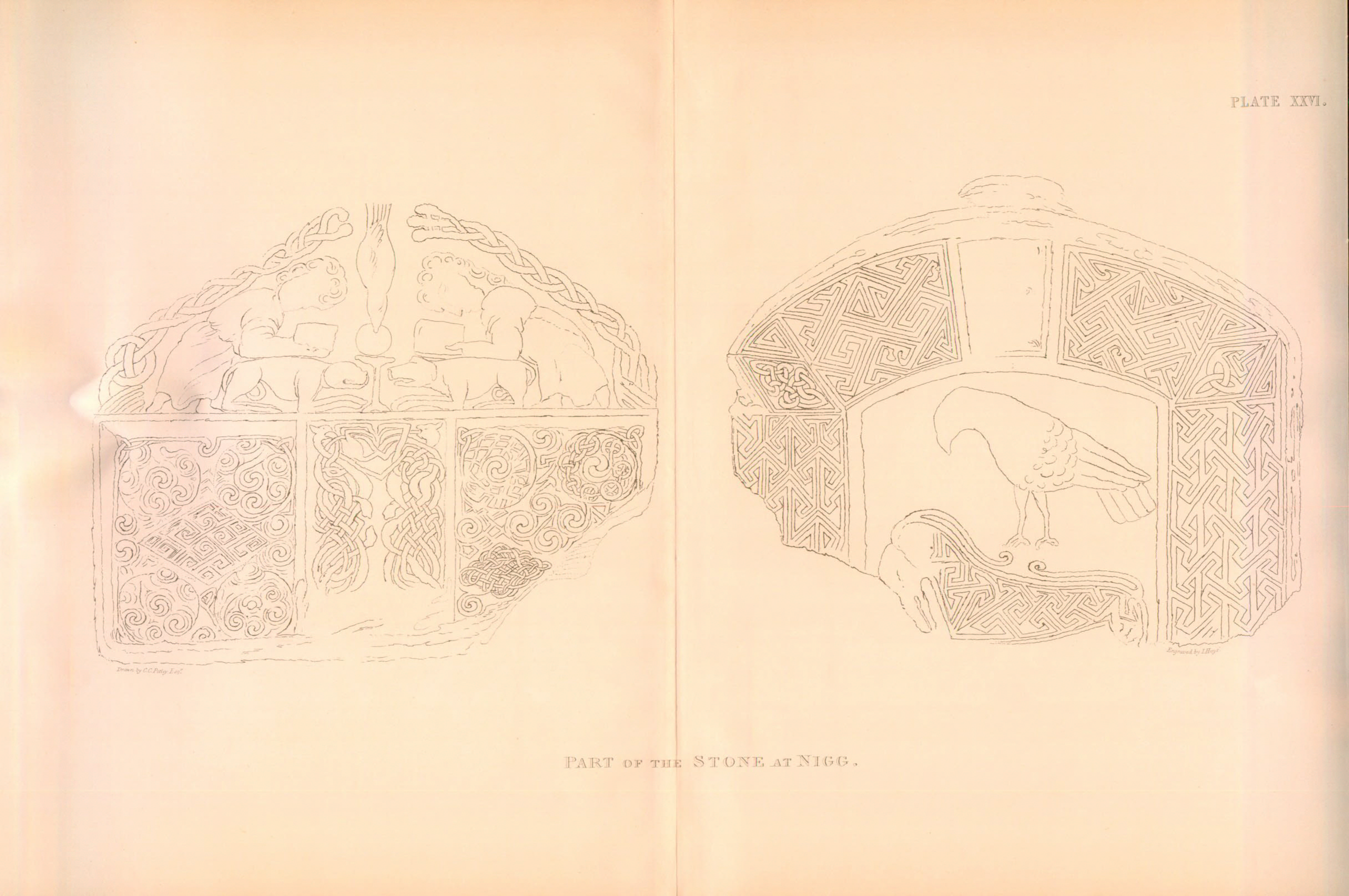 This plate is taken from "A Short Account of some Carved Stones in Ross-shire, accompanied with a series of Outline Engravings" by Charles Carter Petley and published in Archaeologia Scotica or Transactions of the Society of Antiquaries of Scotland, vol IV (1857) Description.